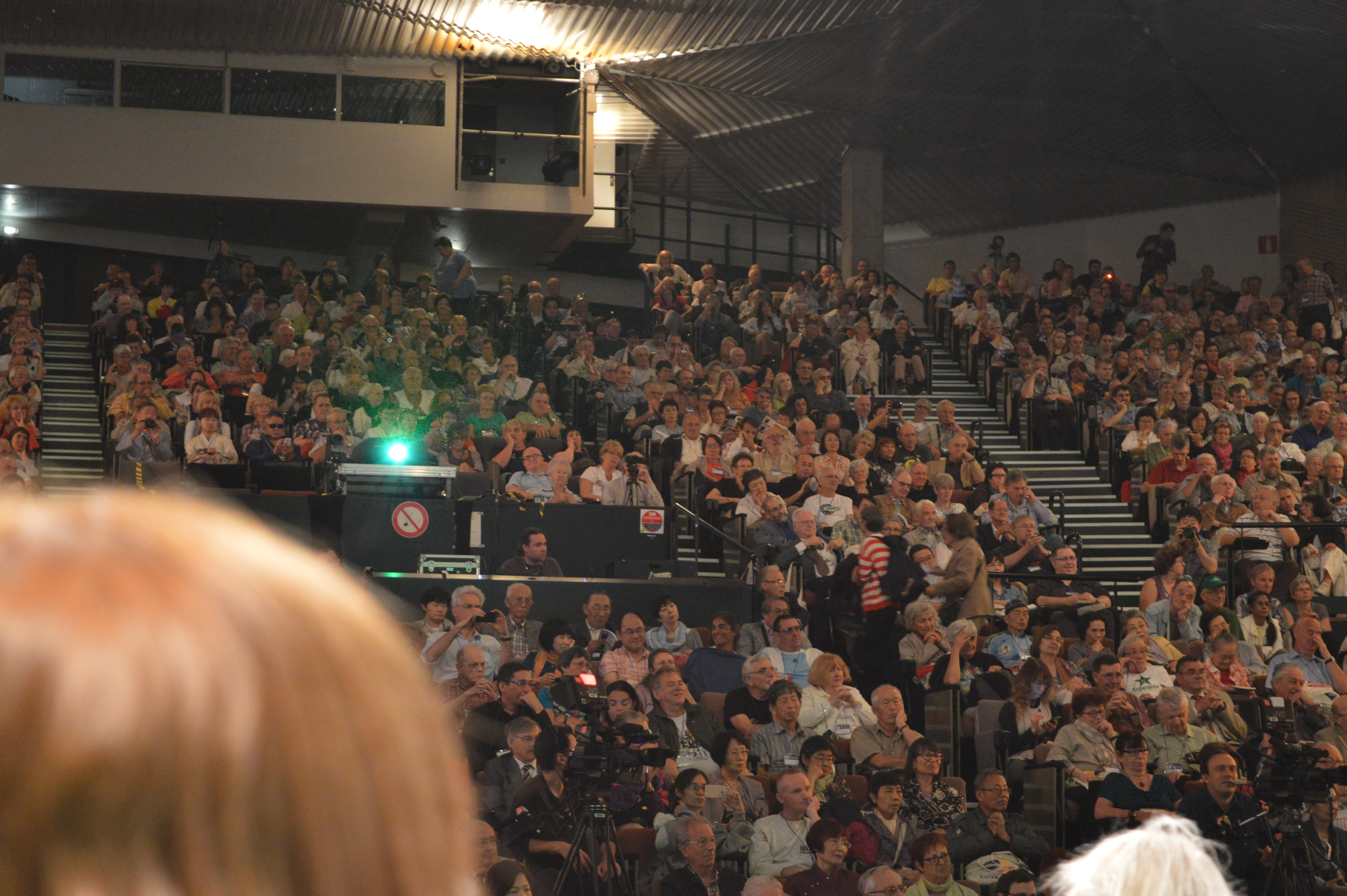 Opening ceremony the 100st World Esperanto Congress, Lille, France